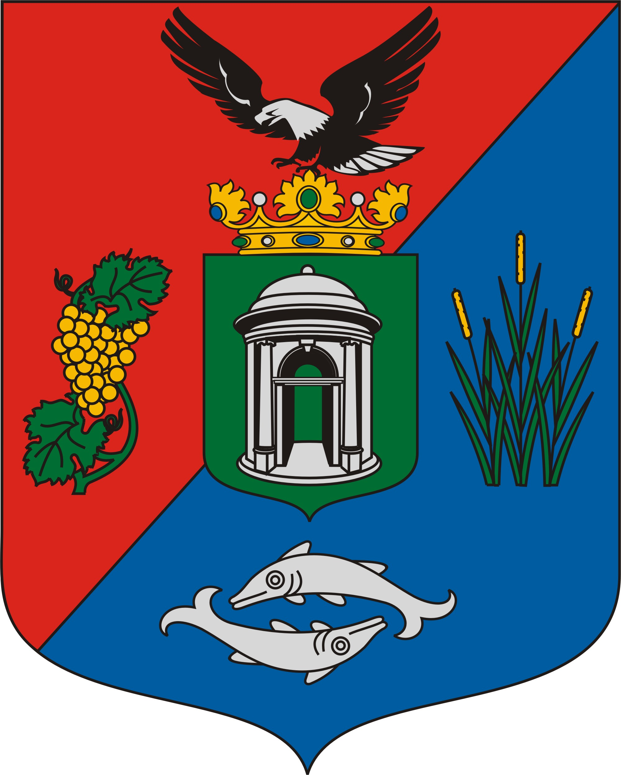 Coat of arms of Fertőboz, Hungary